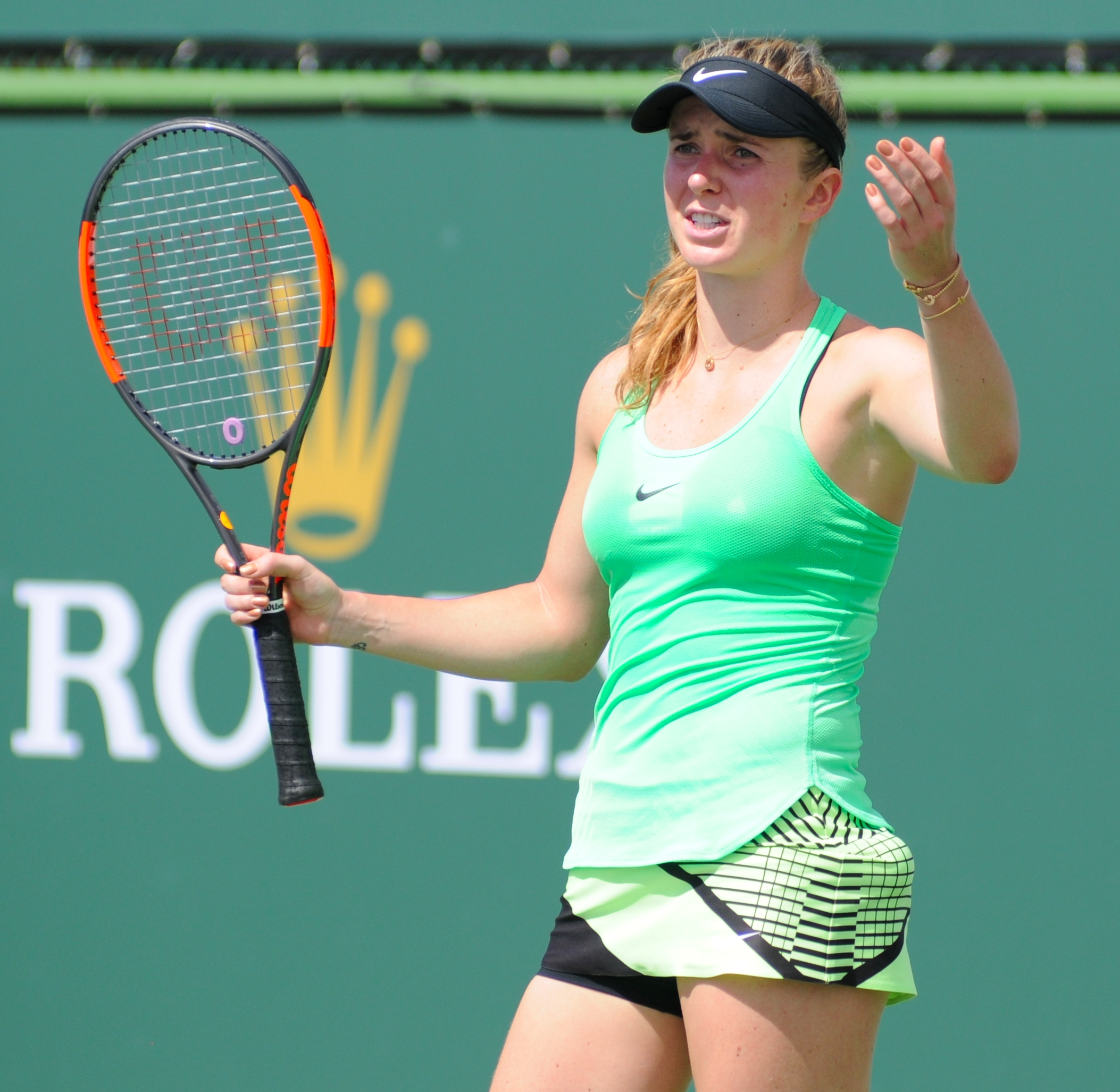 Elina Svitolina at the 2017 BNP Paribas Open